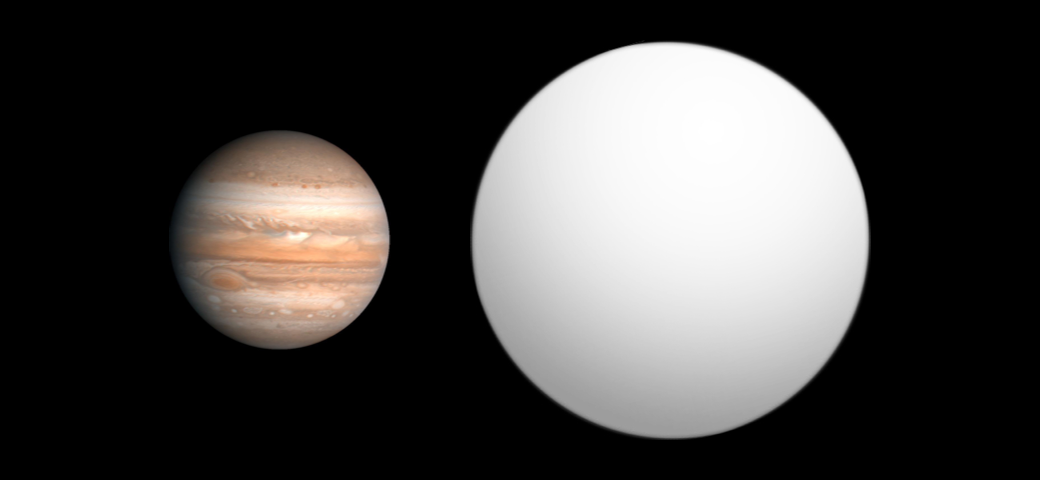 Comparison of best-fit size of the exoplanet TrES-4 b with the Solar System planet Jupiter, as reported in the Extrasolar Planets Encyclopaedia[1] as of 2010-10-03. ↑ Extrasolar Planets Encyclopaedia (2010-09-30). Retrieved on 2010-10-03.